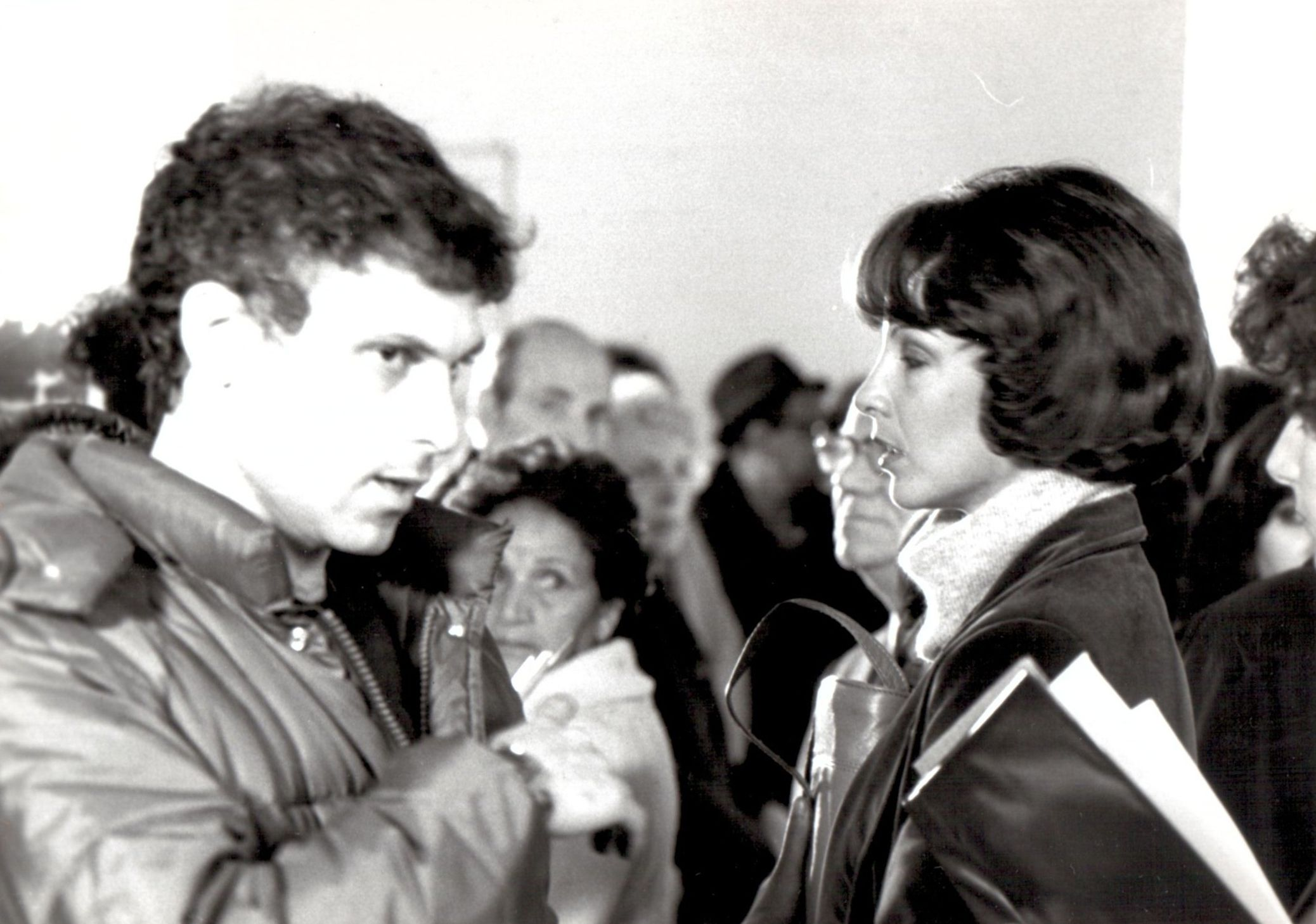 Kathleen Quinlan with Riki Shelach